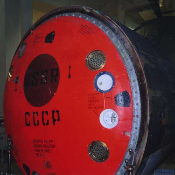 Capsule of Soyuz 29 in the Deutsches Museum in Munich.